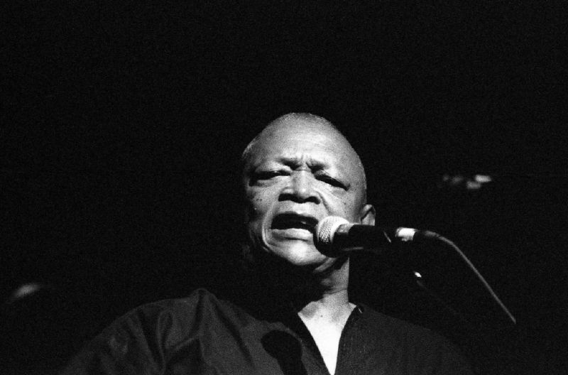 Hugh Masekela, a South African trumpetist, composer, and singer